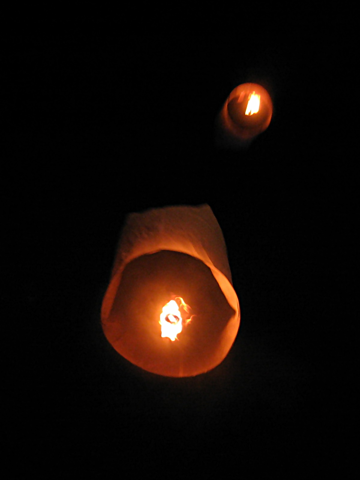 View from underneath of launched Khom Fai (Thai: โคมไฟ), flying lantern originated from Northern Thailand. Photo from Chiang Mai, Thailand.